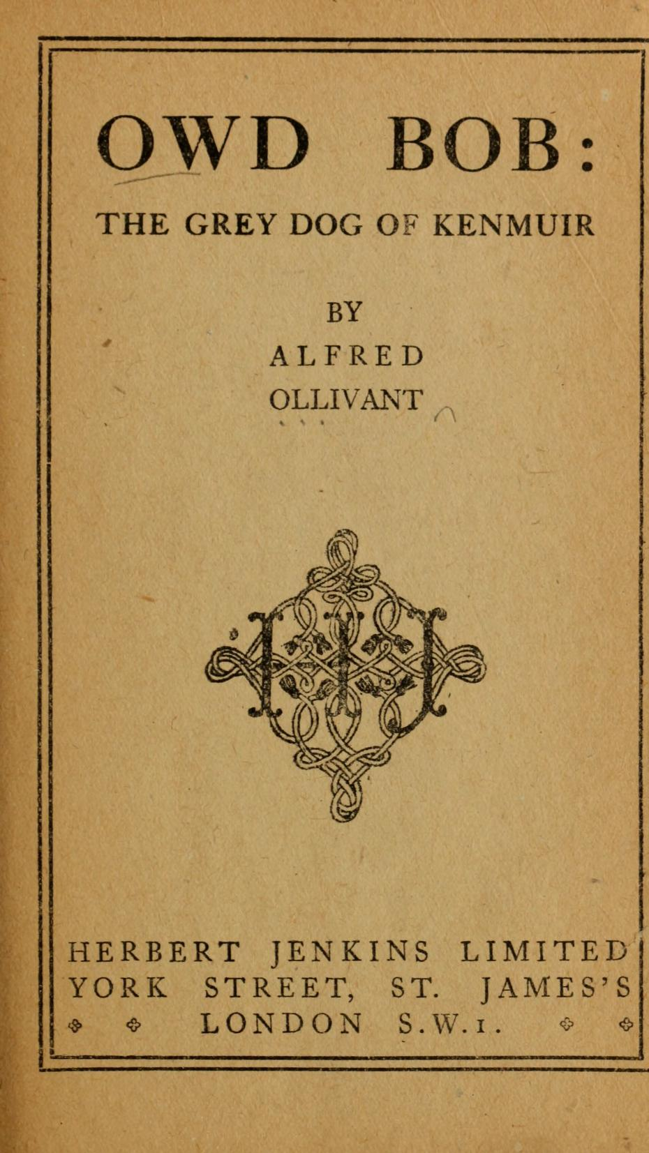 Title page of Owd Bob, 1st ed (1898)